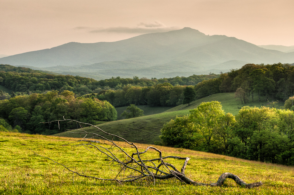 Grandfather Mountain sunset